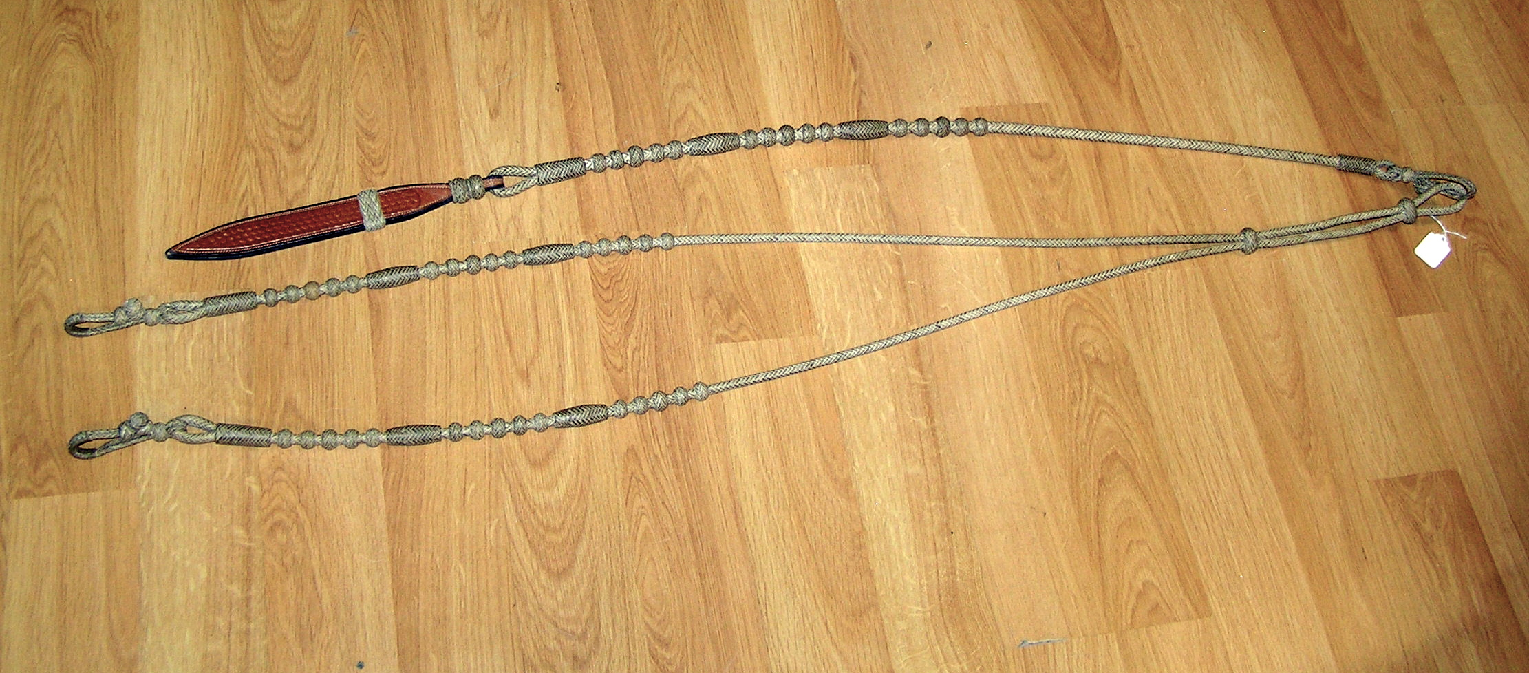 Classic pure rawhide romal reins, made in Mexico, probably hand-braided. Image taken with staff permission at Three Forks Saddlery, Three Forks, MT